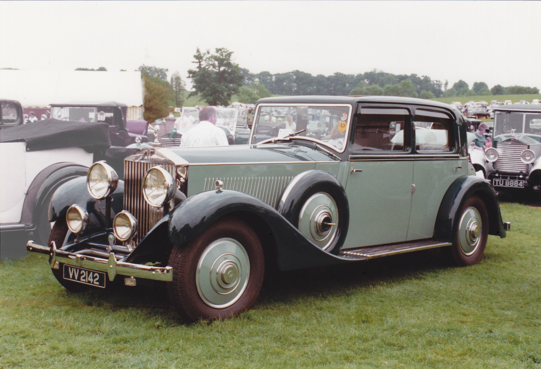 Rolls-Royce Phantom II Continental #7MW, Arthur Mulliner saloon, 1933.First owner: W.B. Stevens, Northampton, England.Tidied with Photoshop